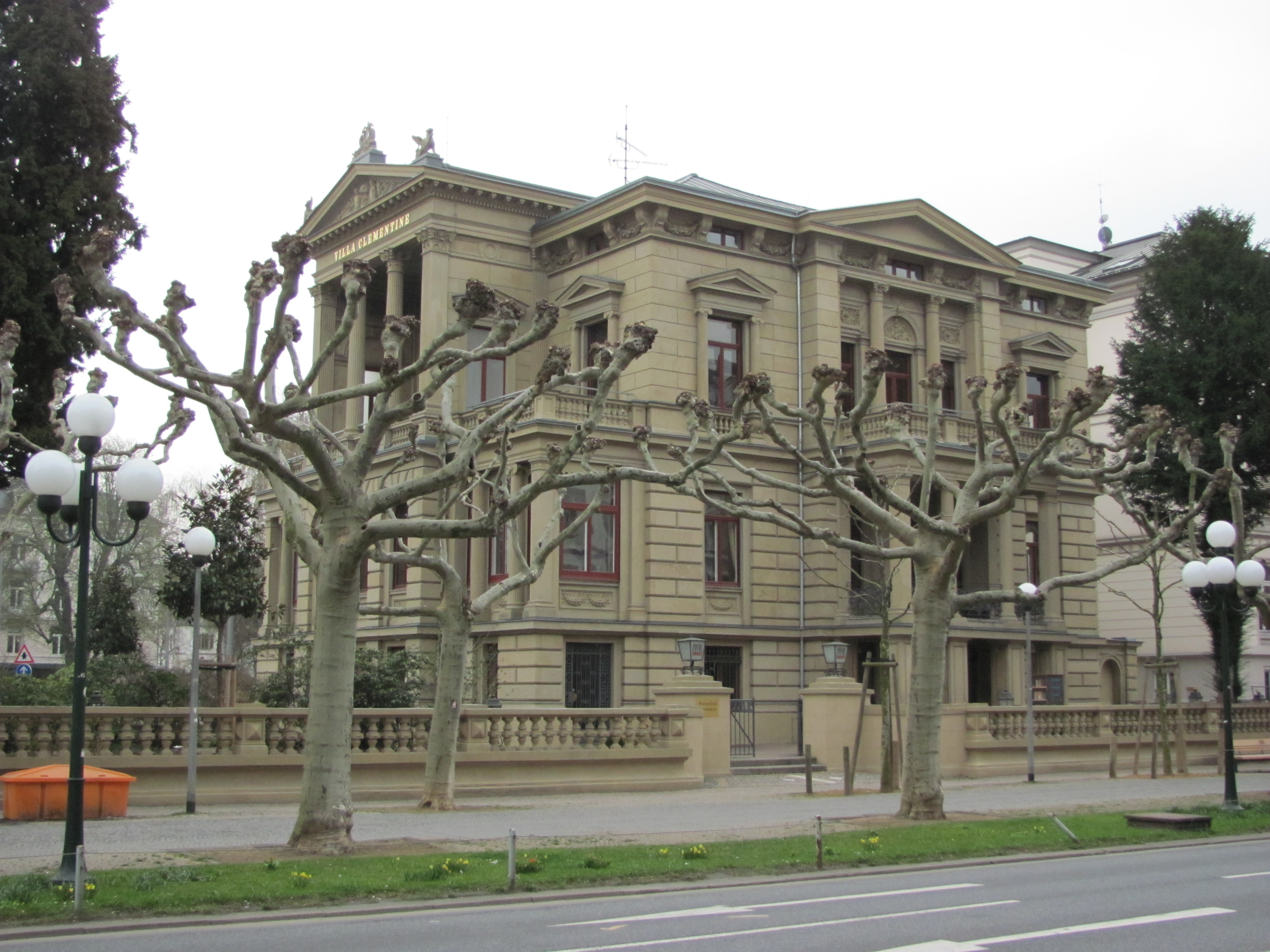 Villa Clementine from Wilhelmstraße